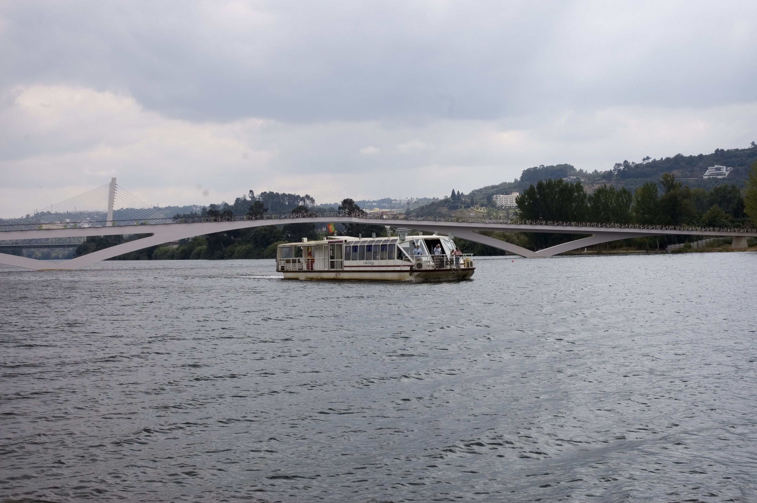 View of Mondego near Coimbra